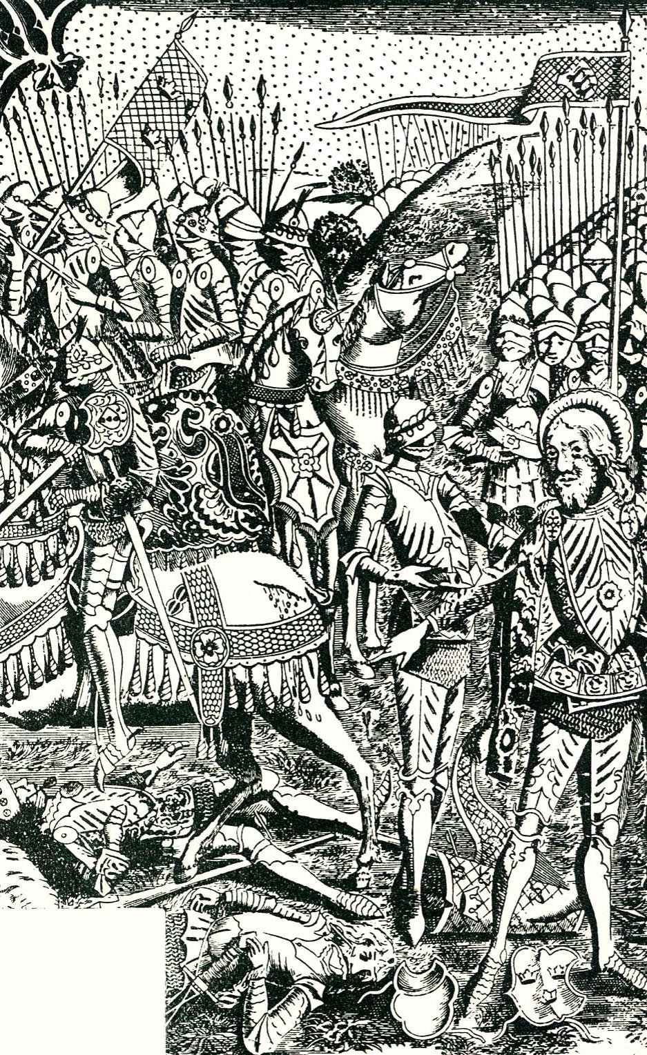 King Magnus II attacks King Eric the Holy of Sweden